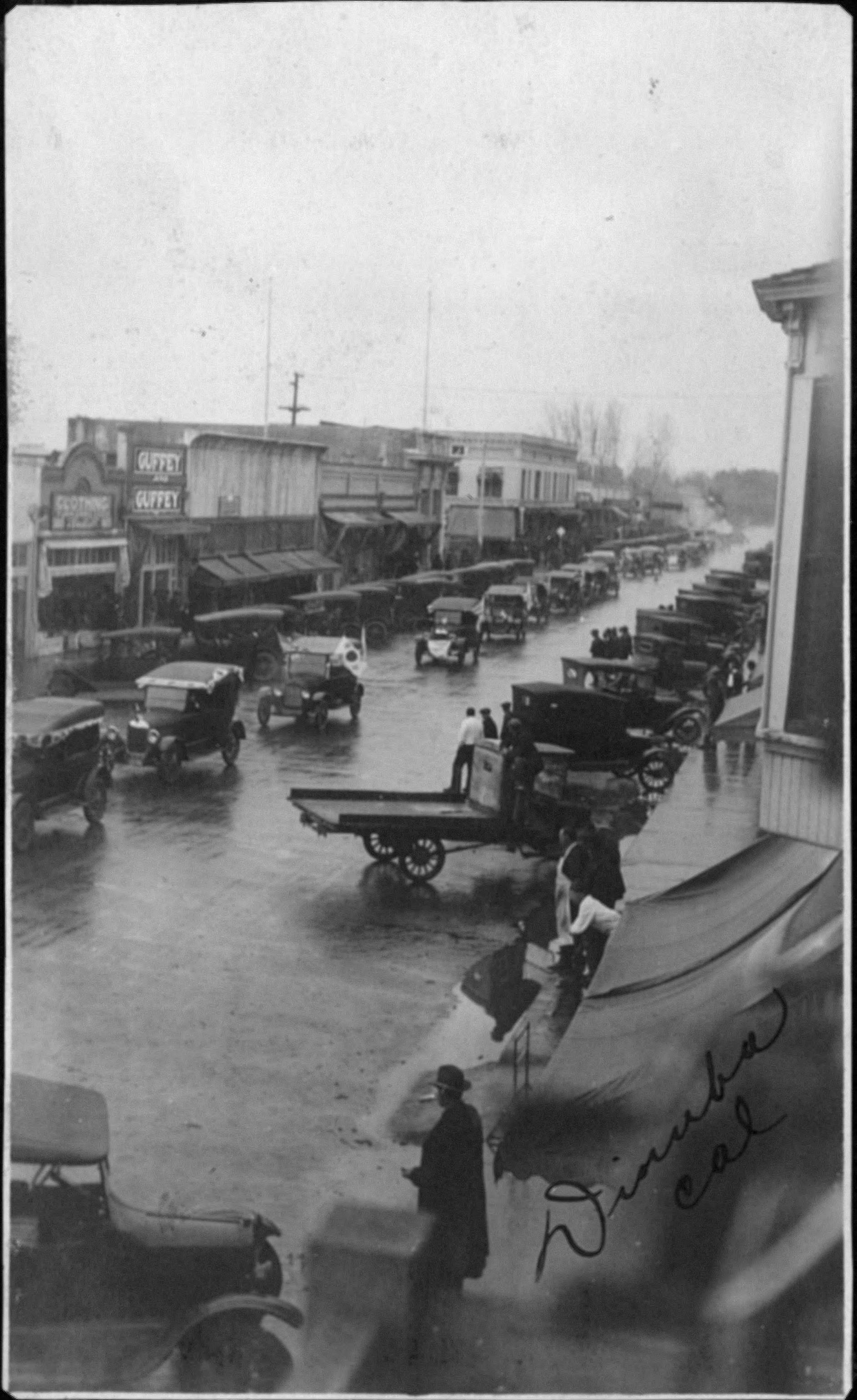 March First parade in Dinuba, 1920 Date created: 2013-06-18 Publisher (of the digital version): University of Southern California. Libraries Repository name: East Asian Library, University of Southern California Geographic subject (state): California Series: Frances and Jason Hahn Rights: © 2000 University of Southern California University Libraries; May not be copied without permission of the Korean Heritage Library, University of Southern California.; From the photographic collection of the Korean American Archive; Korean American Archive Part of subcollection: Korean American Archive Photograph Set Coverage date: 1920-03-01 Part of collection: Korean American Digital Archive Repository Geographic subject (county): Tulare Contributing entity: University of Southern California Repository address: Los Angeles, CA 90089-1825 Access conditions: Send requests to East Asian Library, University of Southern California, Los Angeles, CA 90089-0154 or . Contributor: Francis and Jason Hahn Type: images Geographic subject (city or populated place): Dinuba Geographic subject (country): USA Subject: Koreans in Dinuba (California); Korea--History--Independence movement, 1919--Anniversaries